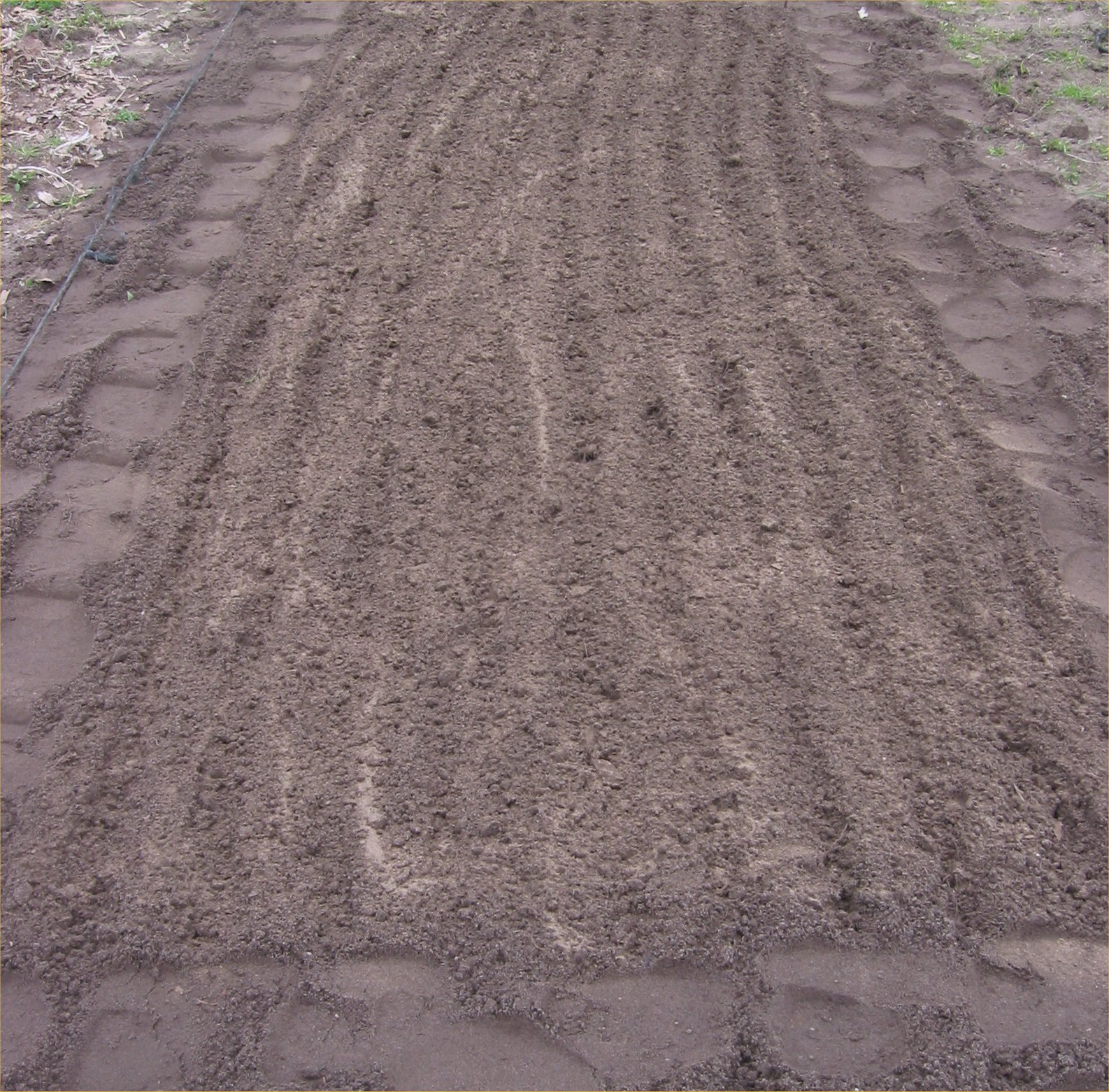 Seedbed for carrots